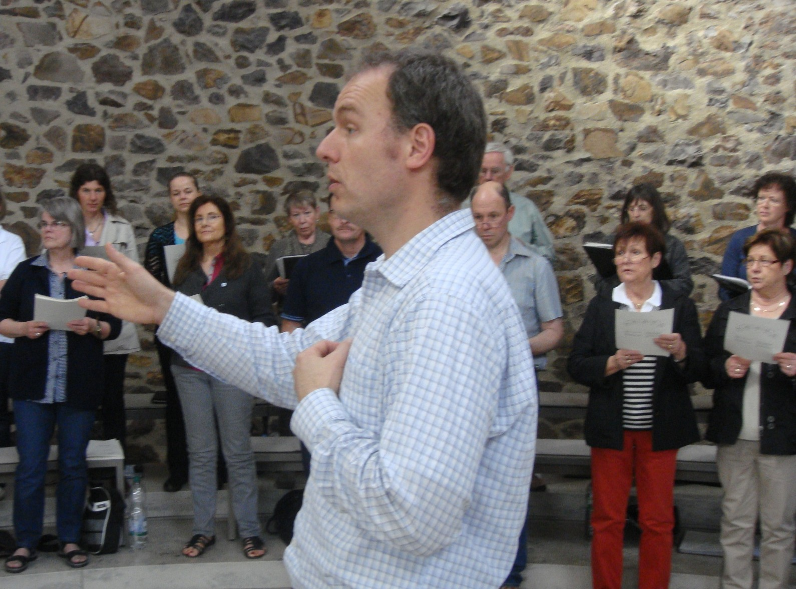 Conductor Franz Fink, St. Martin, Idstein, in rehearsal with two choirs, Chor St. Martin and Martinis, divided in five groups for "Immortal Bach" by Knut Nystedt, 29 April 2012, preparing concert Lux Aurumque 3 June 2012